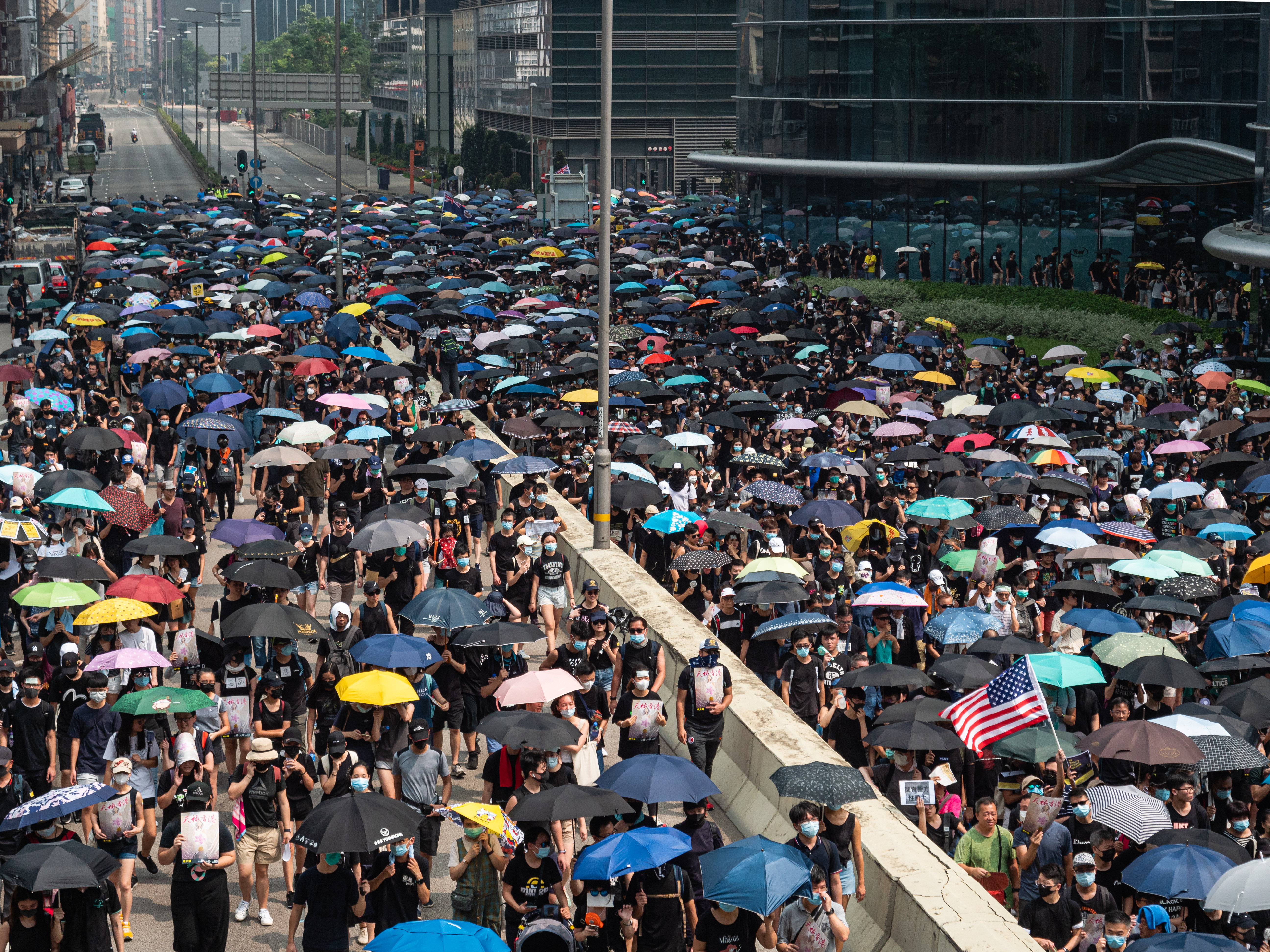 A part of the 2019 Hong Kong anti-extradition bill protests, the Kwong Tong March took place on August 24, 2019.